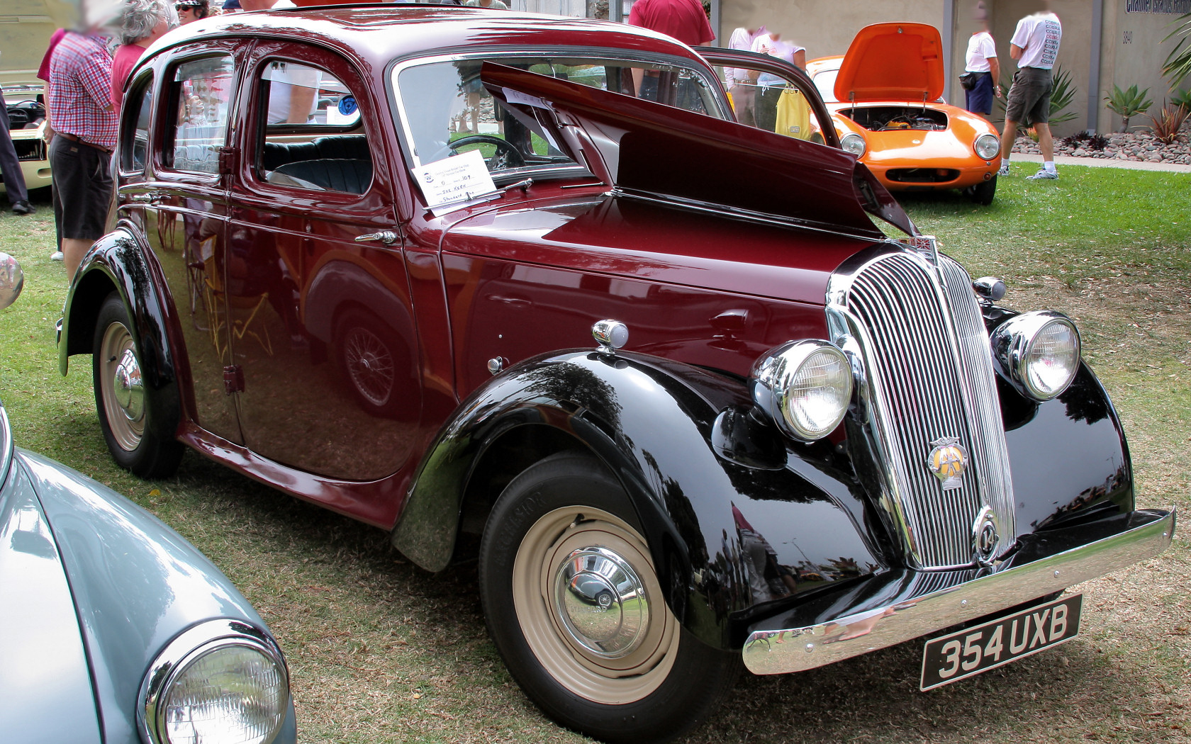 1948 Standard 14 at British Marques - Oxnard, CA, Aug 9, 2009